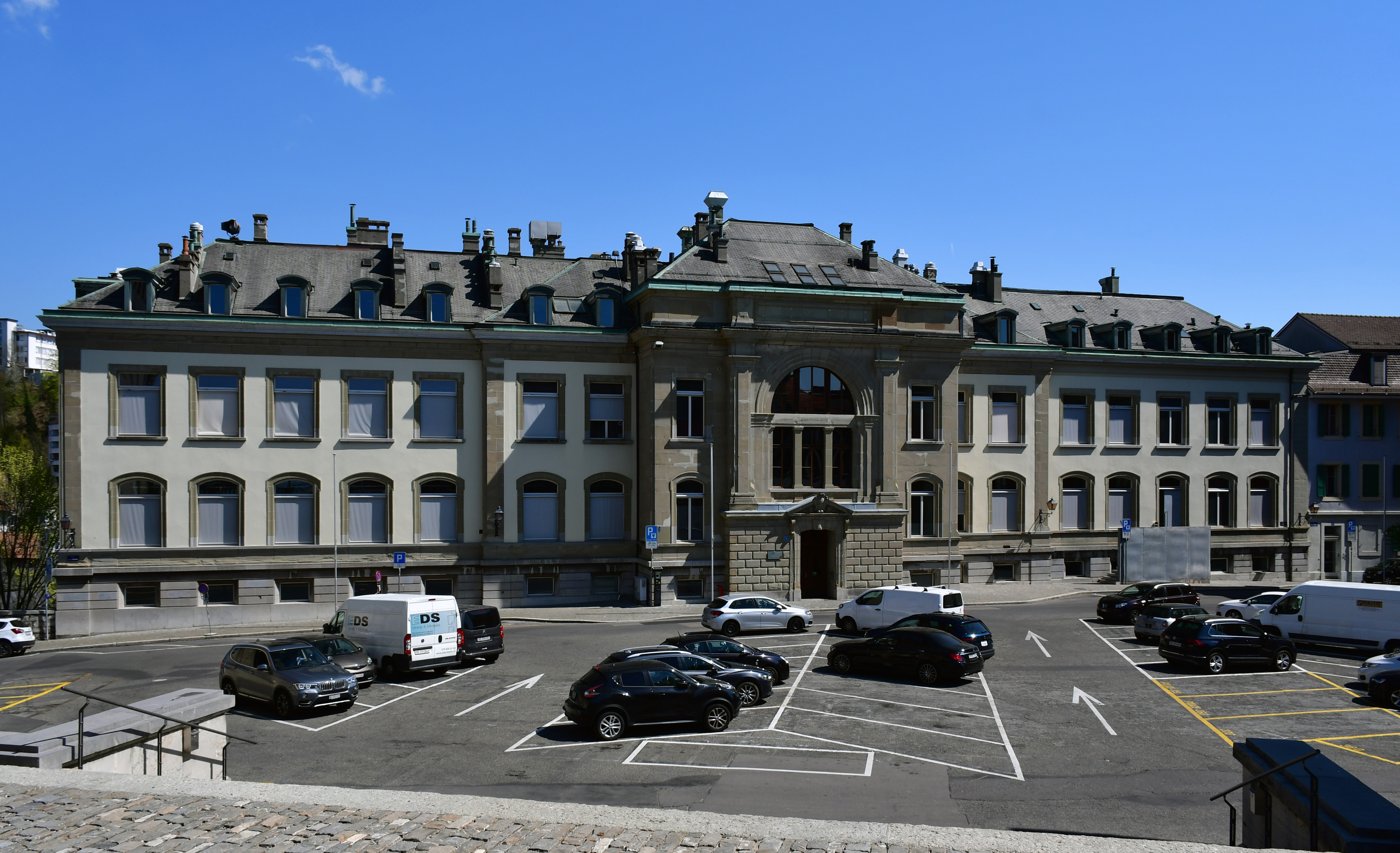 Place du Château(Lausanne, Switzerland), and the former school of physics and chemistry, nowadays graduate school of health (École supérieure de la santé, ESsanté).